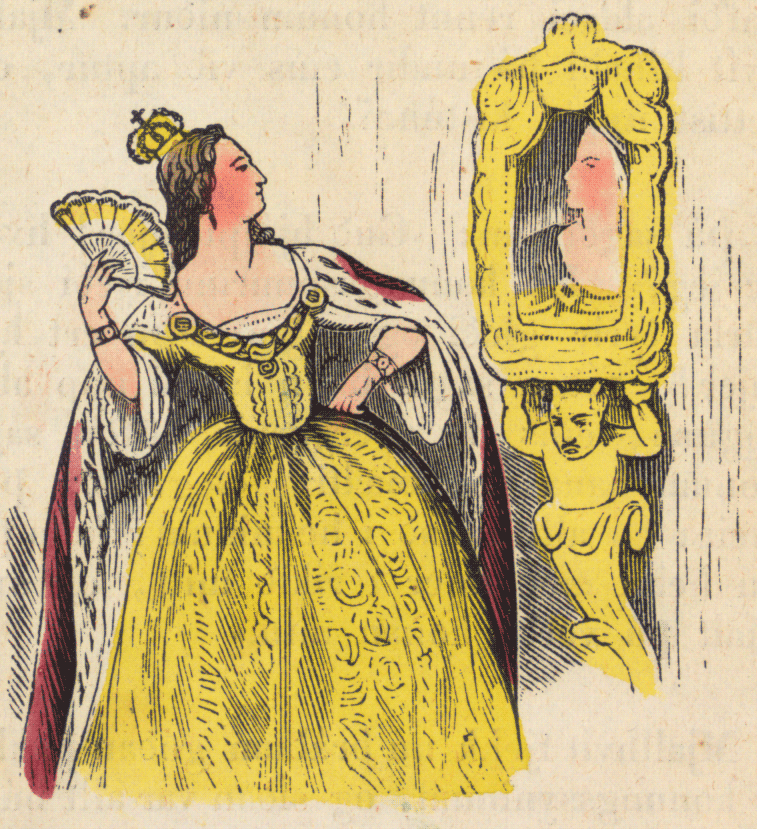 An illustration from page 30 of Mjallhvít (Snow White) an 1852 icelandic translation of the Grimm-version fairytale.